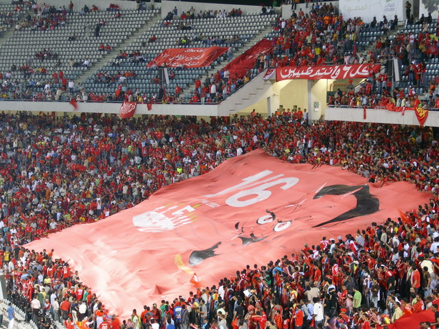 The "Ahly Lovers Union" decided to create a giant flag ( 40 x 20 ) as a tifo for the friendly against Real Madrid in 2001, which was organized as a celebration for the club after El-Ahly was chosen as African club of the century, It was the 2nd tifo in the history of Africa. Several small tifos followed; the last was a huge flag in a Barcelona game.